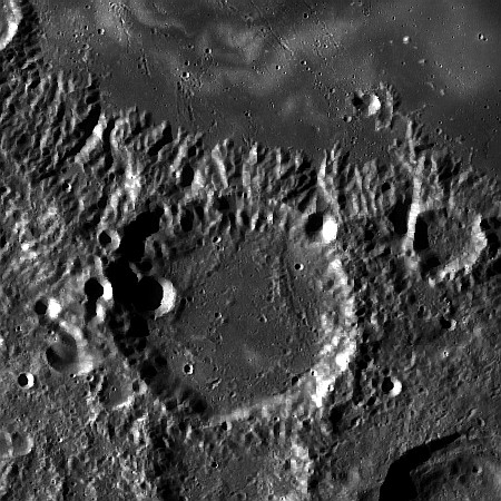 LROC . Obruchev lies next to south rim of Mare Ingenii